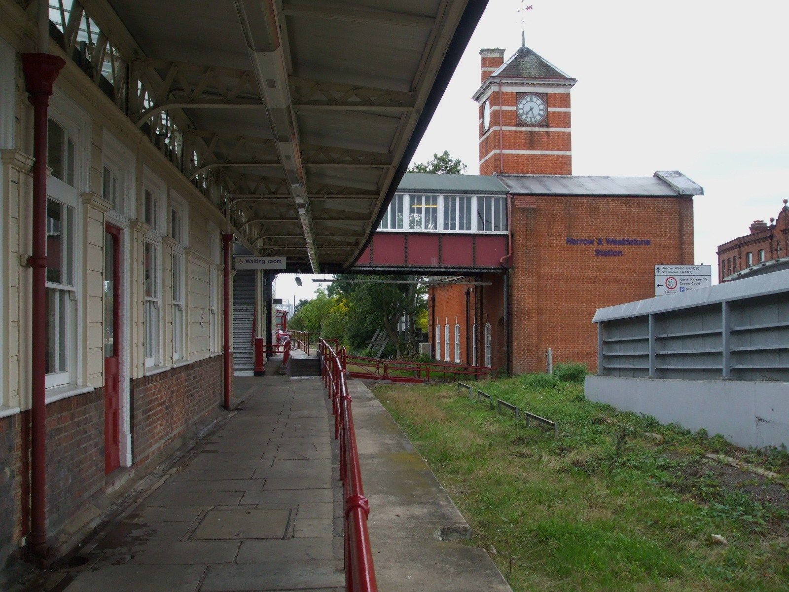 Looking north along the former trackbed of the platform serving the Stanmore Village branch, lifted after the branch closed permanently in 1964. The branch had a south facing junction with the main line just north of Harrow & Wealdstone, then curved east then north towards Stanmore.